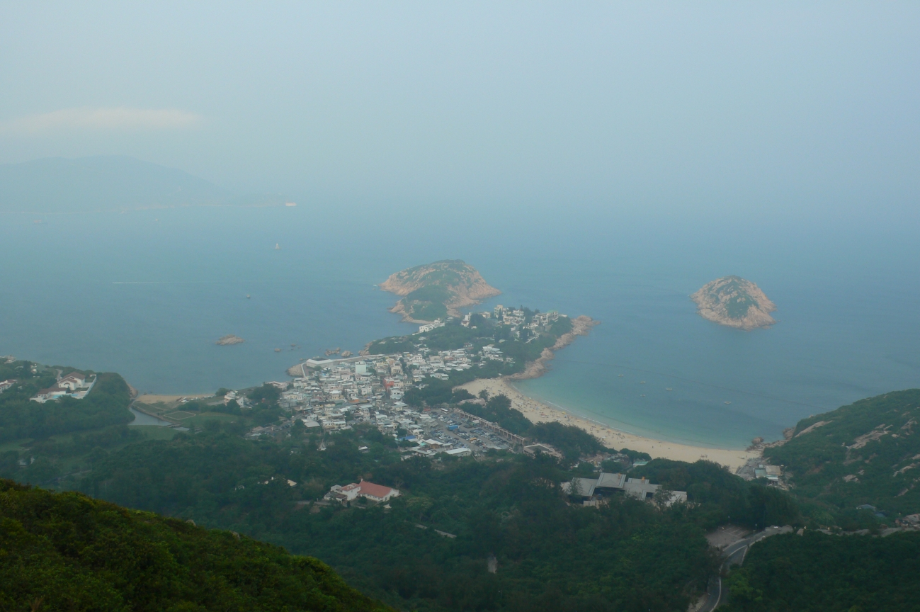 Shek O, a Peninsula in Southern District in Hong Kong